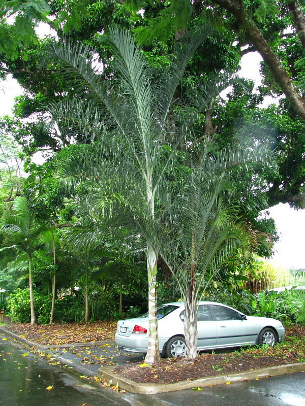 Dypsis decaryi interspecific hybrid at SugarWorld, Edmonton, north Queensland, 2008